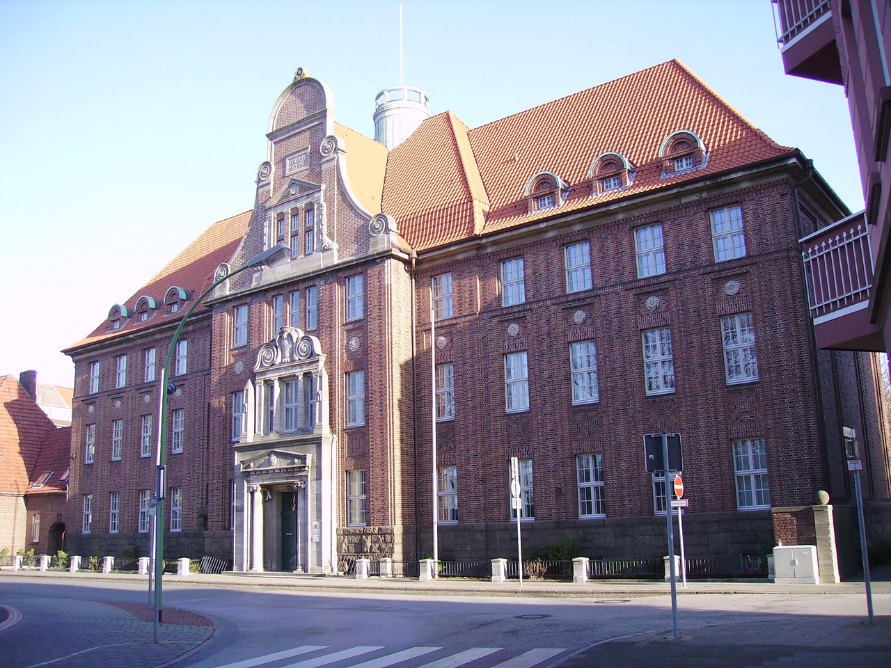 Lower Dictrict Court of Bremerhaven, Germany